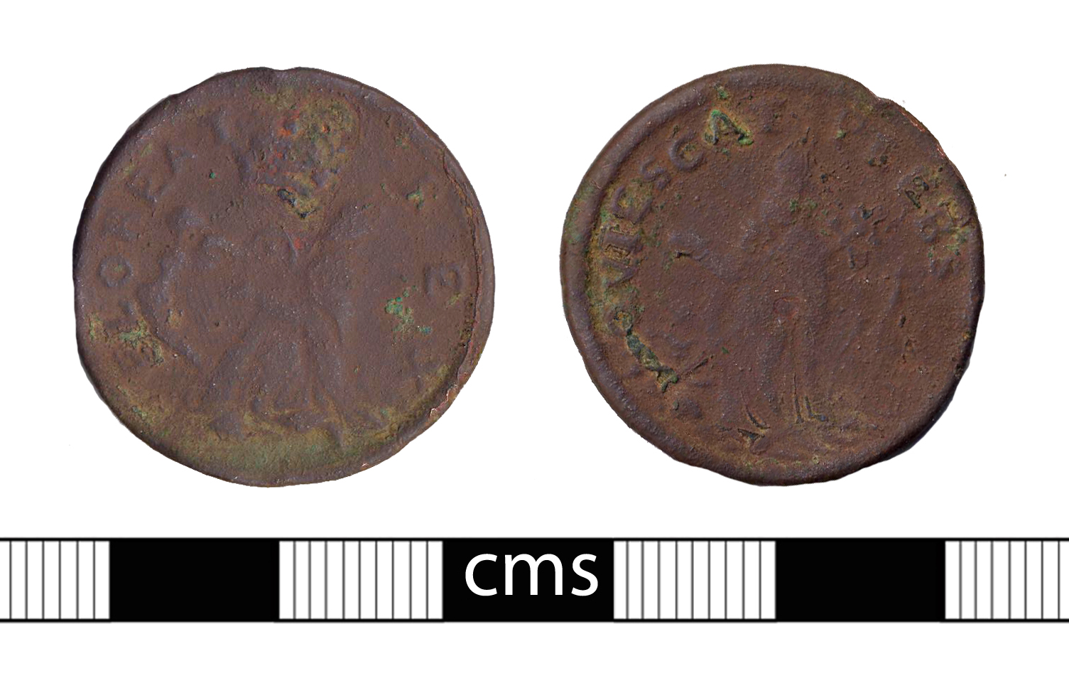 A worn but complete Irish halfpenny or farthing token (also called the St Patrick's Farthing), minted in Dublin c. AD 1658-1670. These coins were sent to New Jersey in America where they circulated as currency (Frazer, 1895).